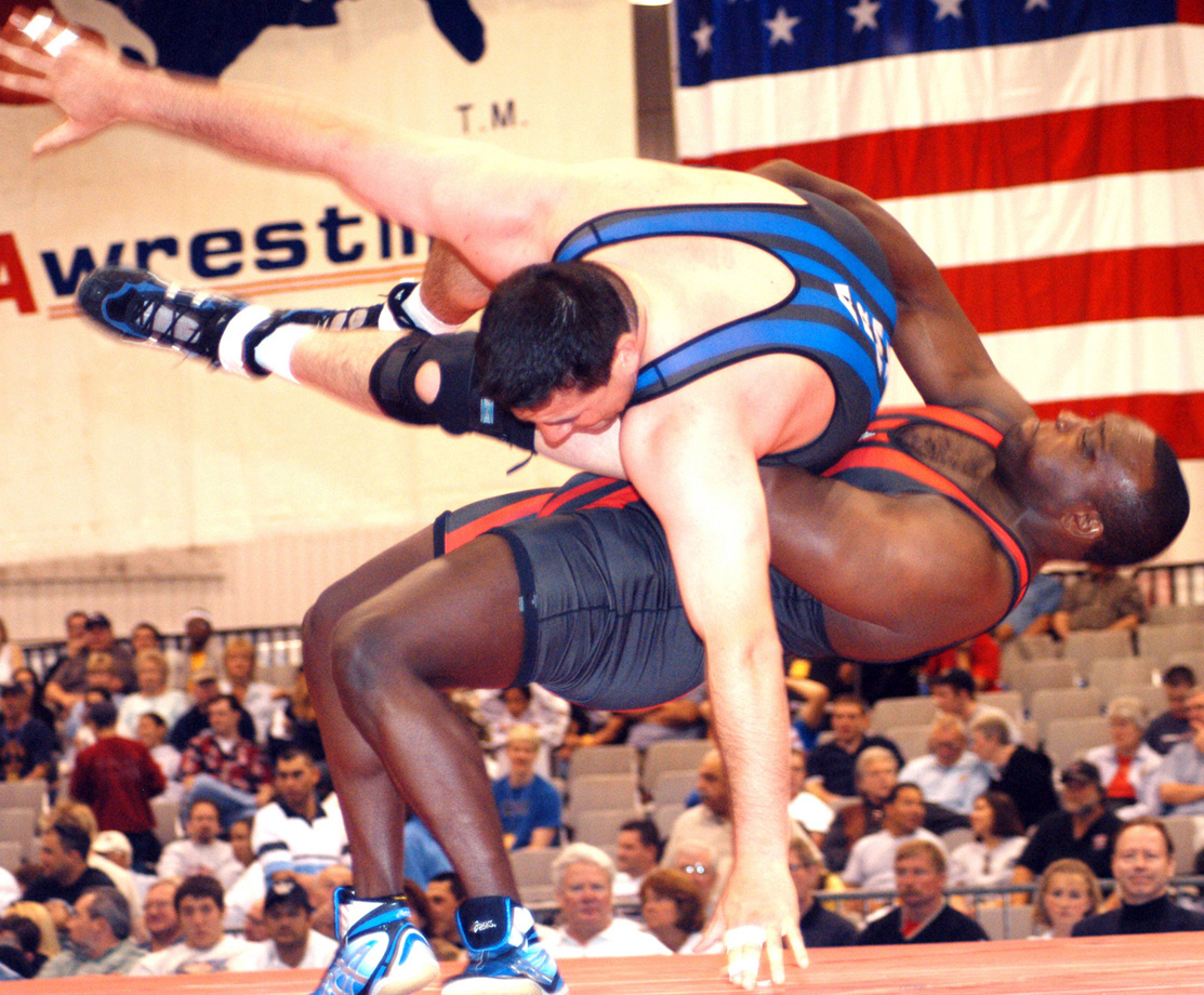 Sgt. Dremiel Byers throws All-Army teammate Spc. Paul Devlin in the semifinals of the 2003 U.S. National Wrestling Championships.